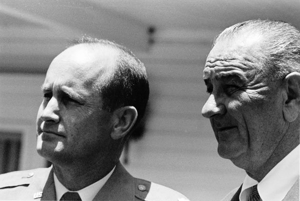 Announcement of the Appointment of Major James Cross as Military Aid to President Lyndon Johnson